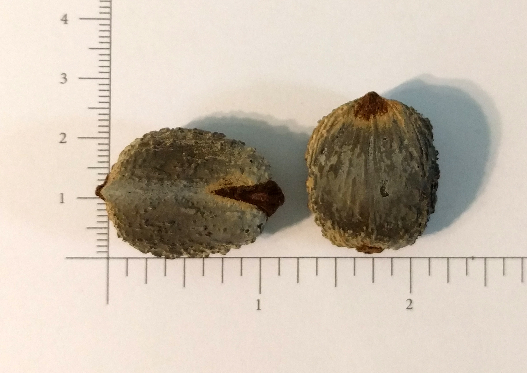 Two tung tree seeds, showing anterior and posterior surfaces